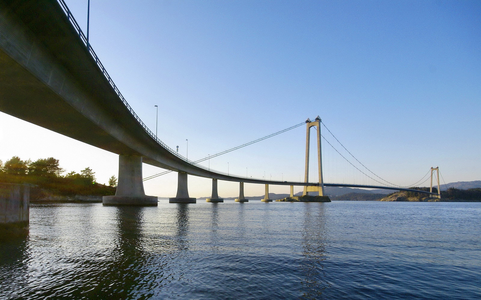 Stord Bridge is a road bridge on European route E39 in Hordaland county (fylke), Norway.